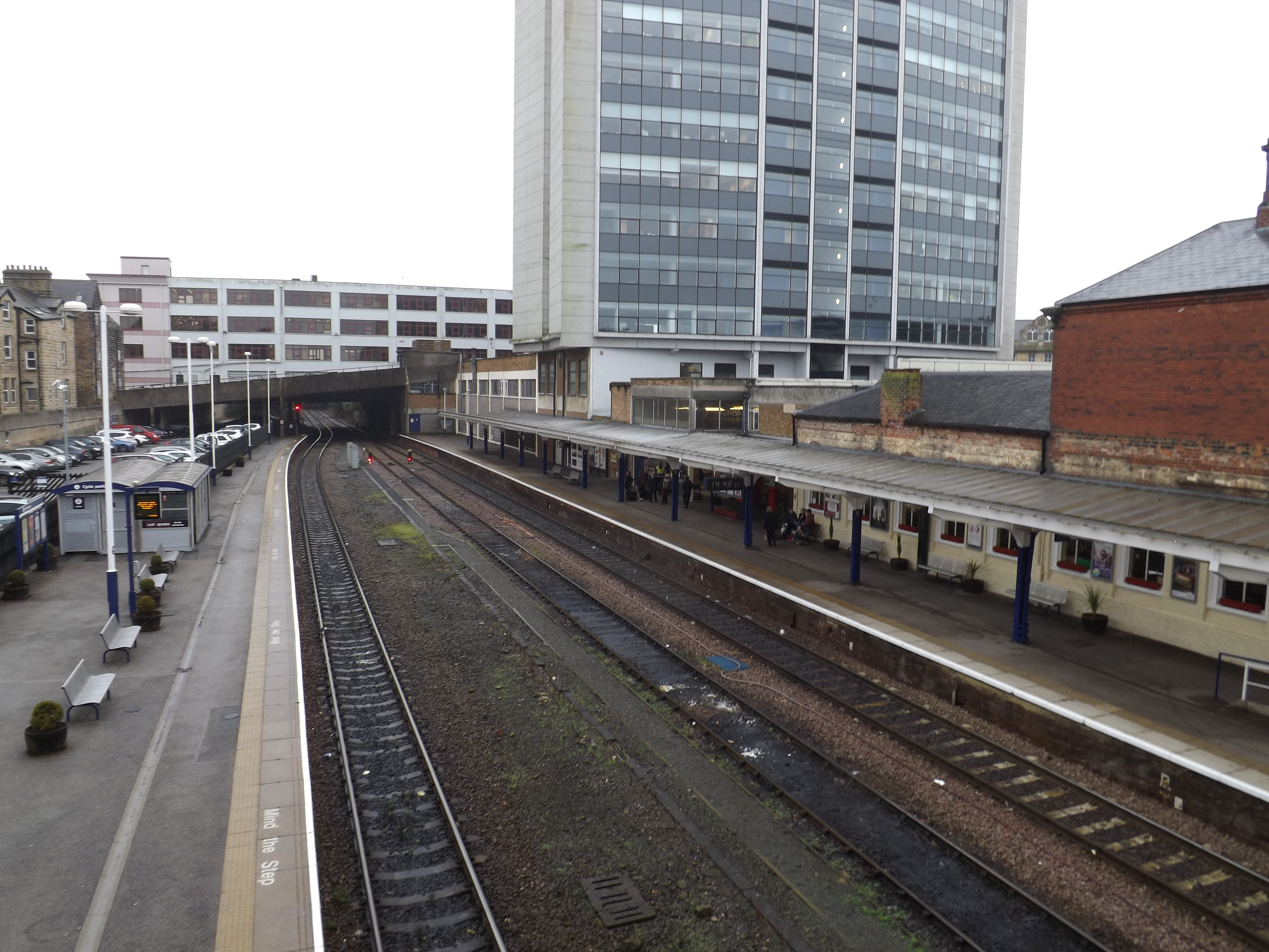 Harrogate railway station in October 2014